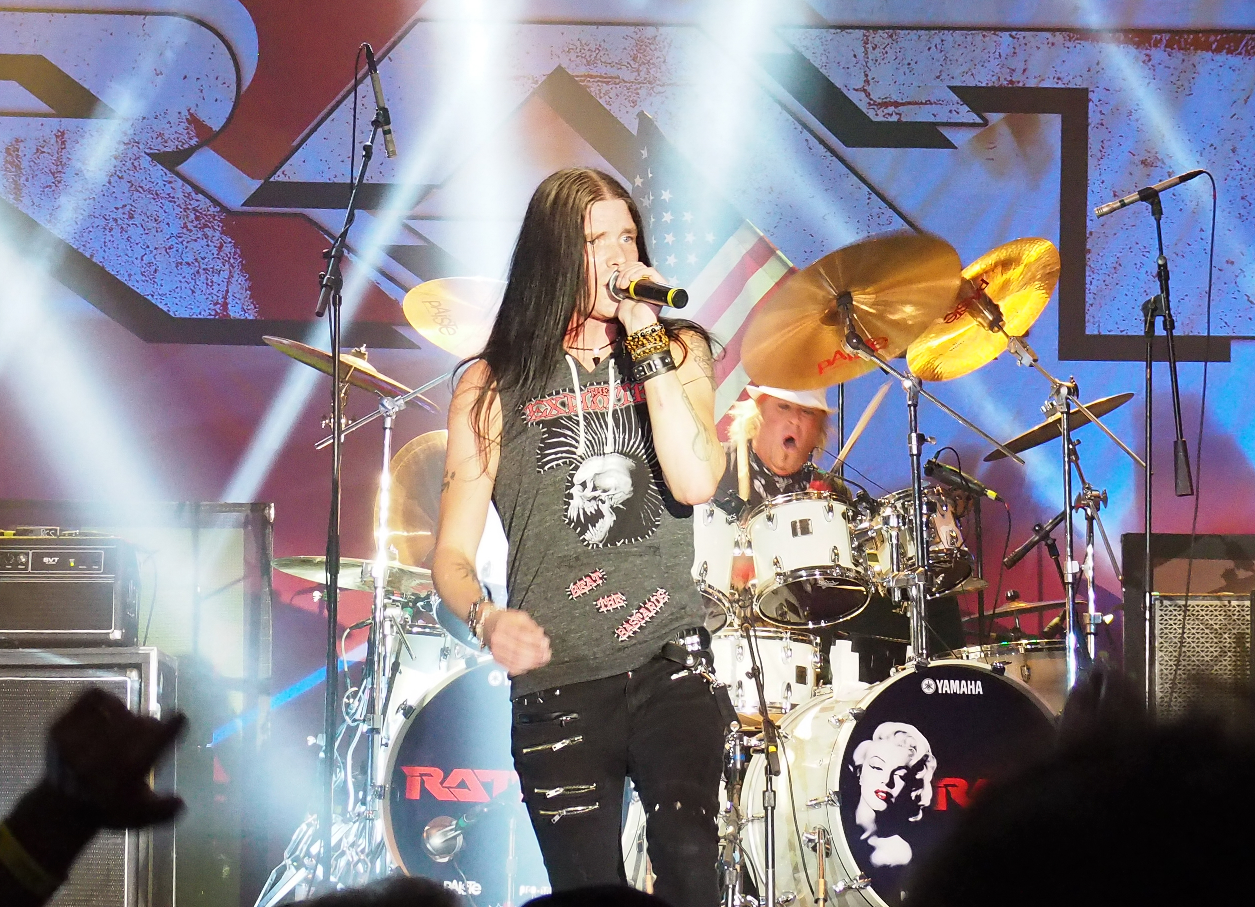 Joshua Alan, performing as lead singer of RATT, in Akron, Ohio, September 4, 2016.